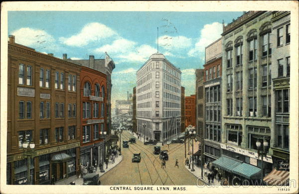 Bird's Eye View of Central Square Lynn, MA